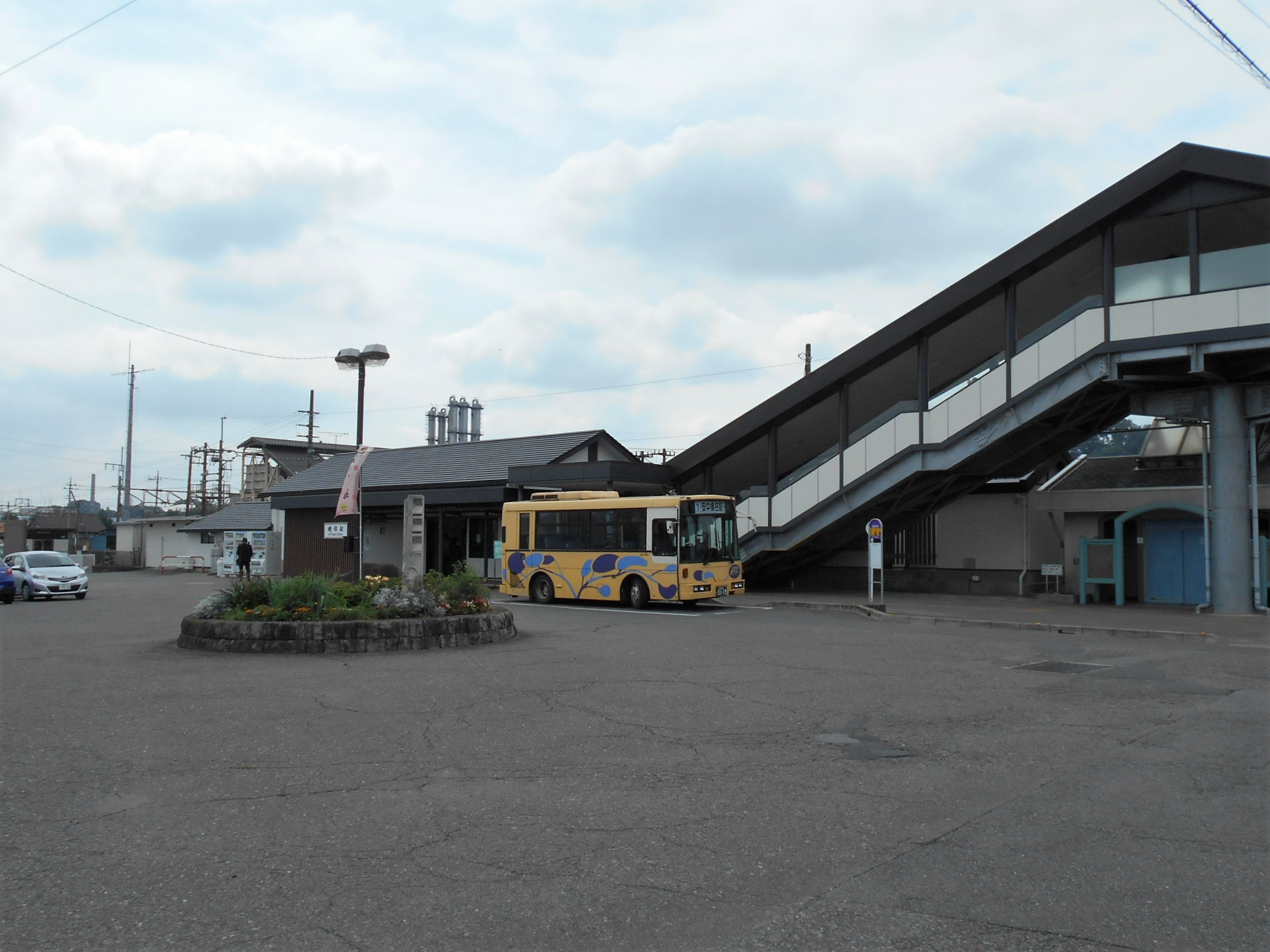 Isobe Station in Gunma Prefecture, Japan